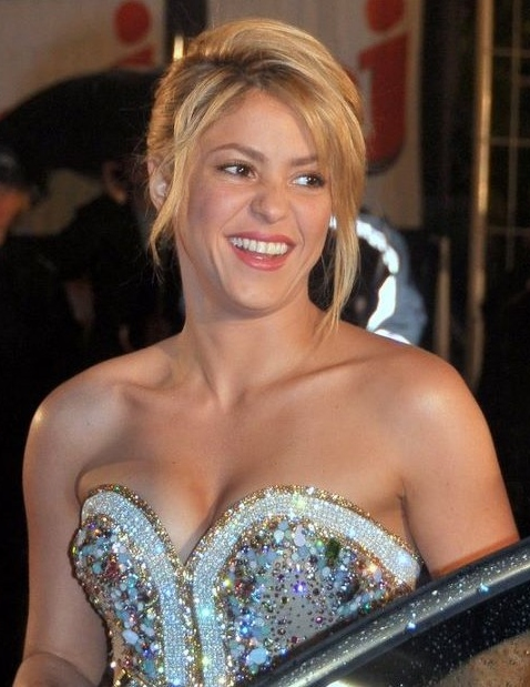 Shakira at the NRJ Music Awards on January 28, 2012.